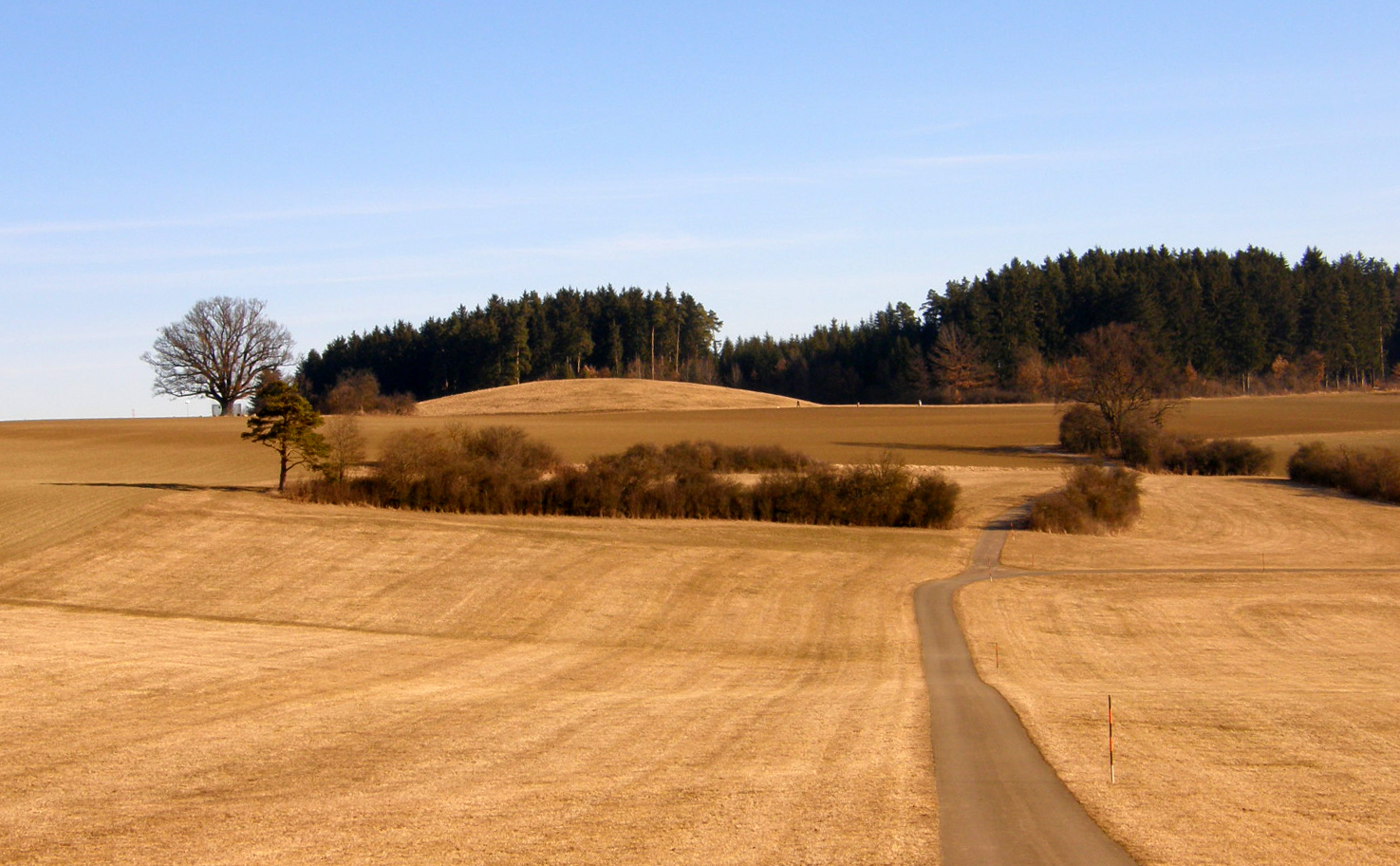 Magdalenenberg tumulus grave, Villingen-Schwenningen